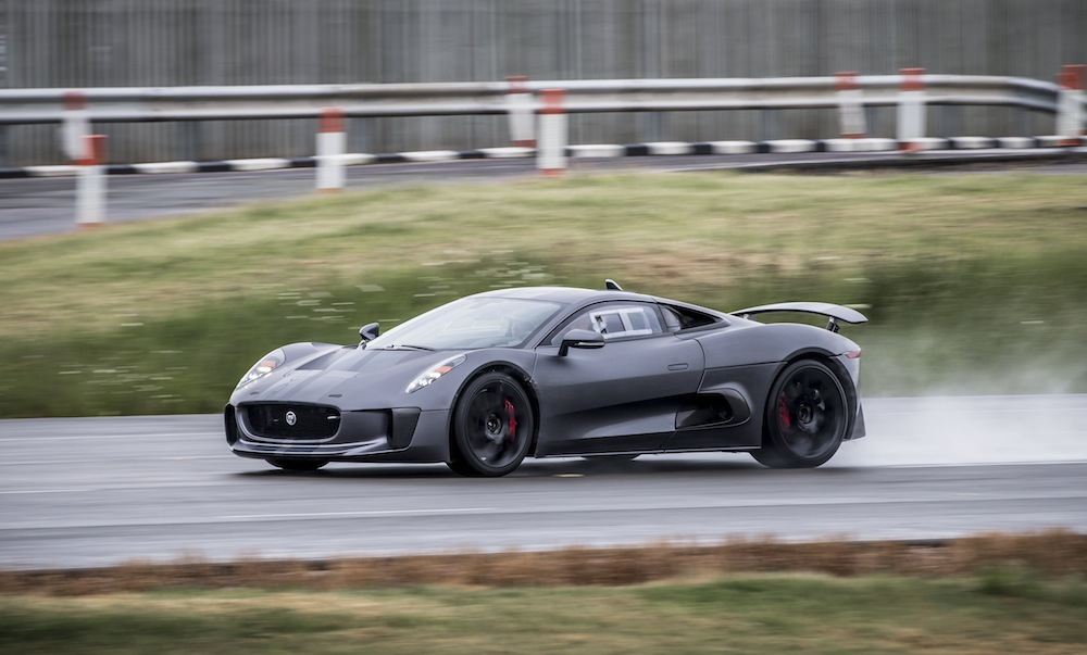 Read more about it here